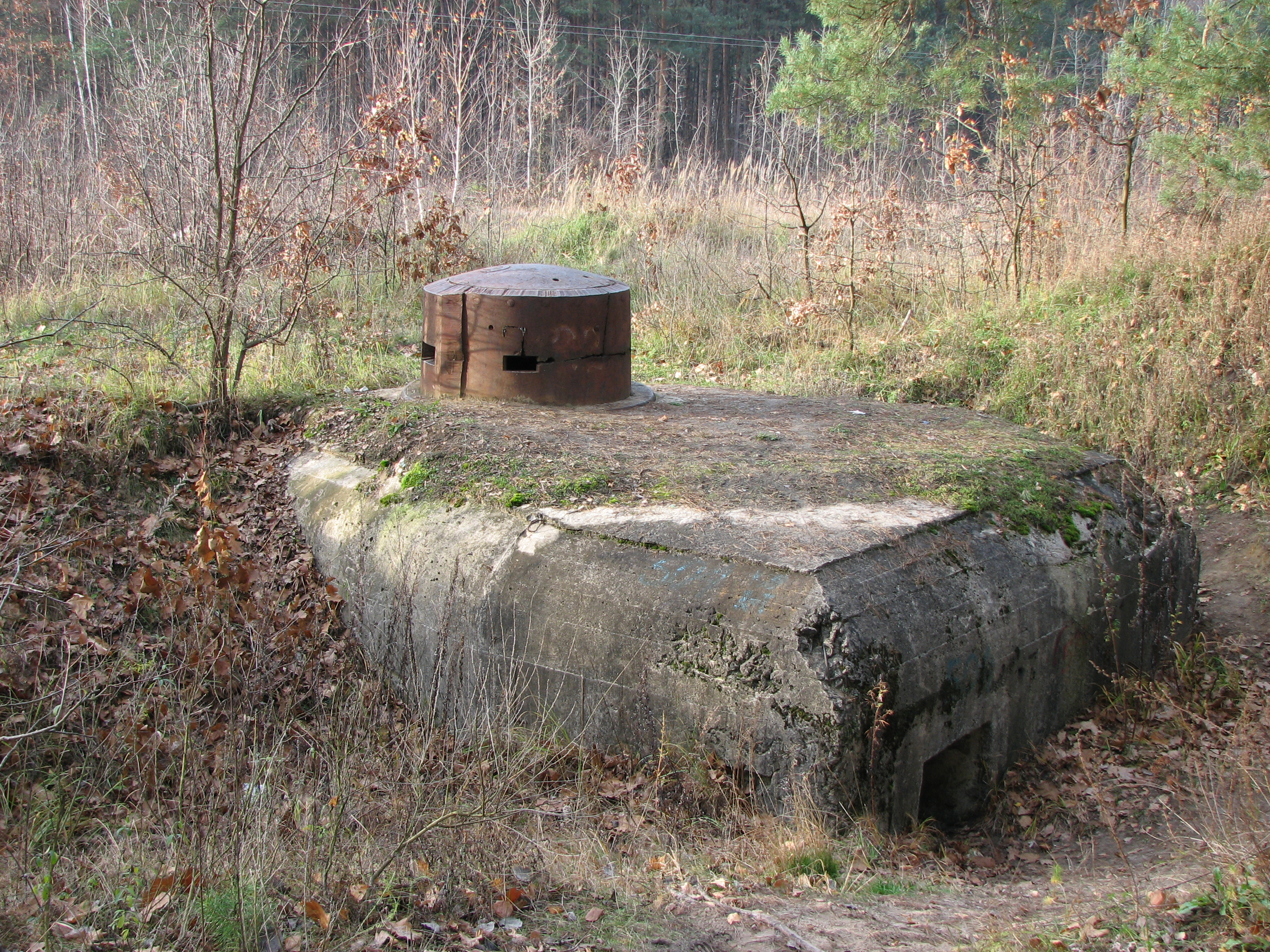 Pillbox 504 (Kyiv Fortified Region)